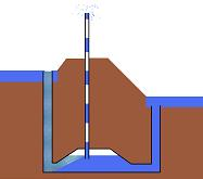 Pulser Pump Schematic